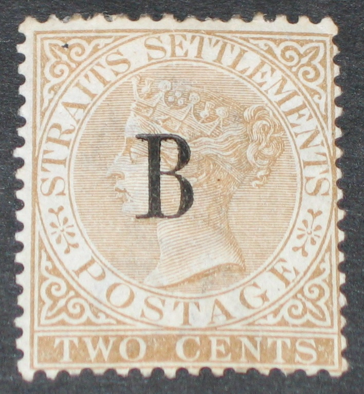 Straite Settlement stamp overprinted B for use in Bangkok. Two cents, brown color, watermark Crown-CA.